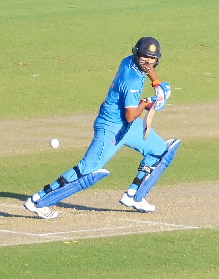 Rohit Sharma batting for India against United Arab Emirates during their 2015 Cricket World Cup match at the WACA Ground in Perth, Australia. The UAE wicketkeeper is Swapnil Patil.